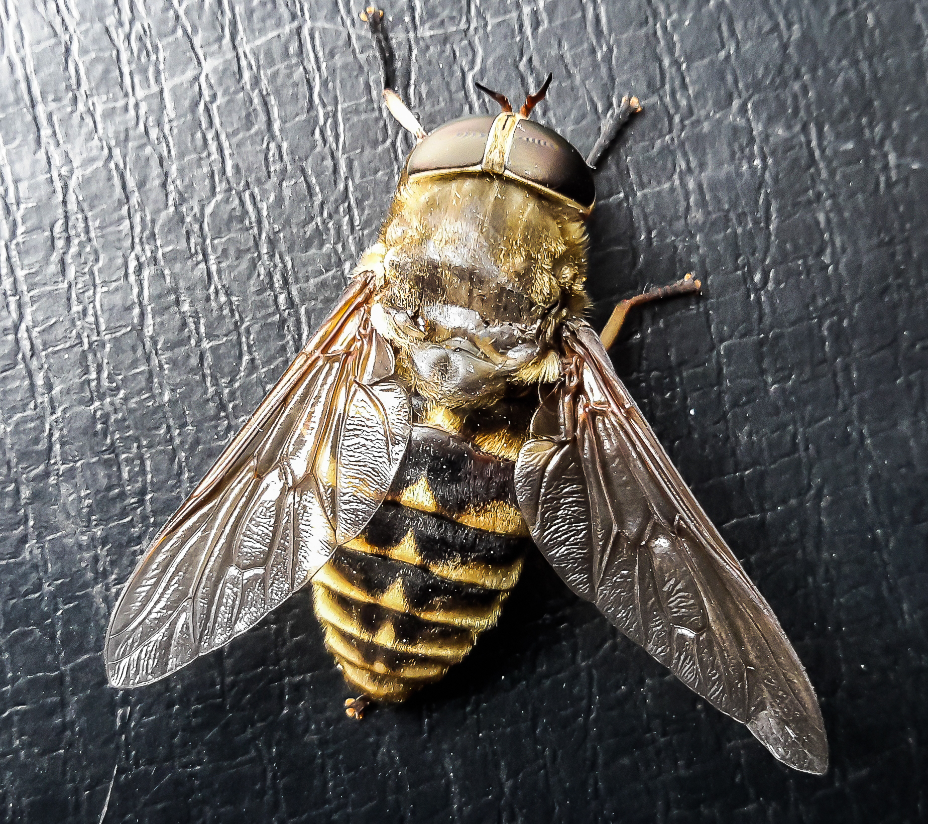 Tabanus sudecticus male - the Dark Giant Horsefly on Anglesey, UK